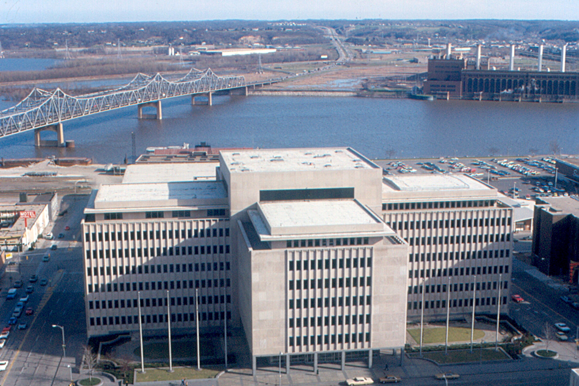 The Caterpillar Administration Building from the Savings Tower, the tallest building in Peoria in 1974. The Illinois River and Murray Baker Bridge are in the background. The city parking lot by the river is at the right, not flooded (unlike an earlier photo). The old CILCO electric power plant is in the right background. I-74 climbs the bluff on the east side of the Illinois River, in the direction of Morton - and beyond to Champaign-Urbana, Indianapolis, and many other points east.